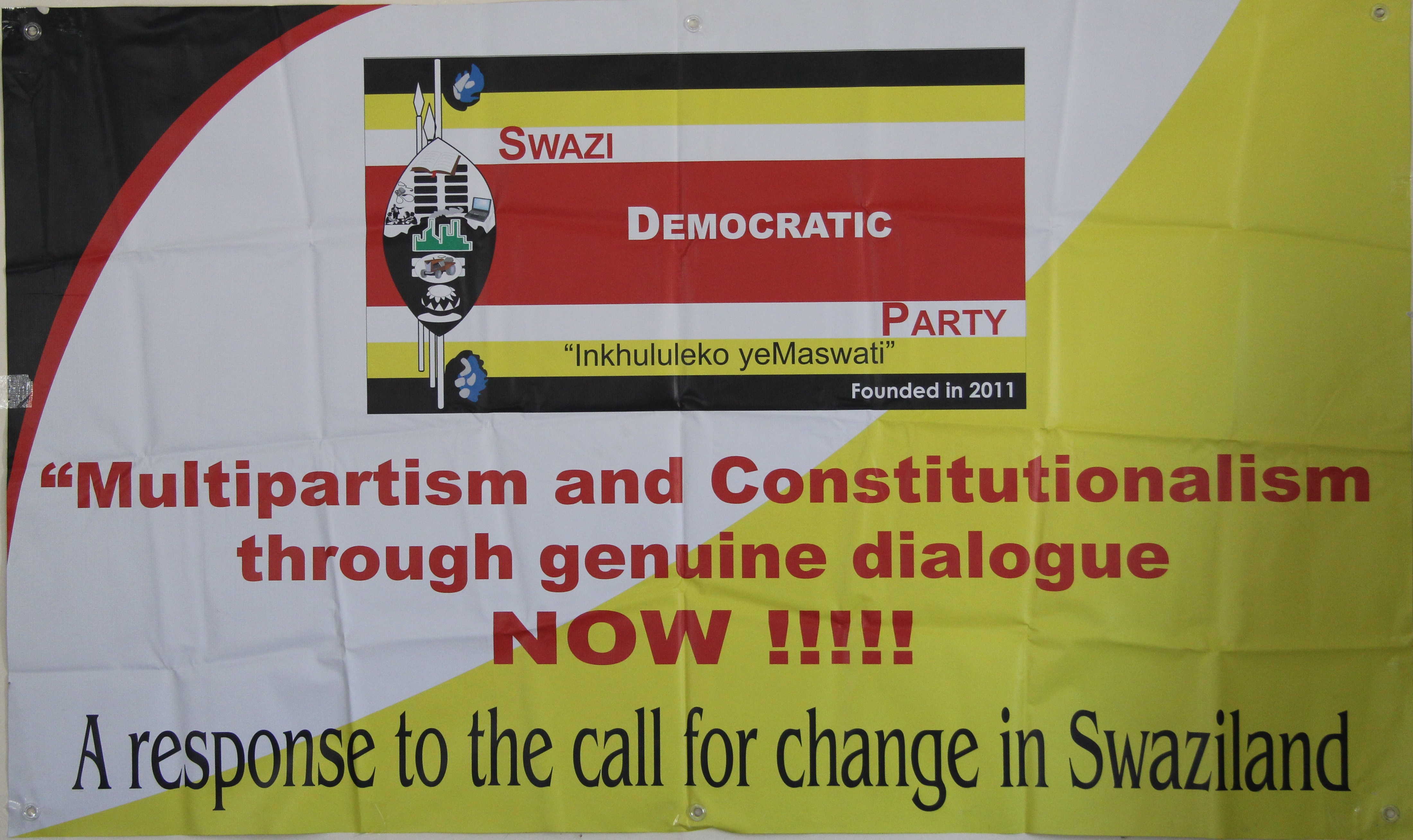 Swadepa banner, photo